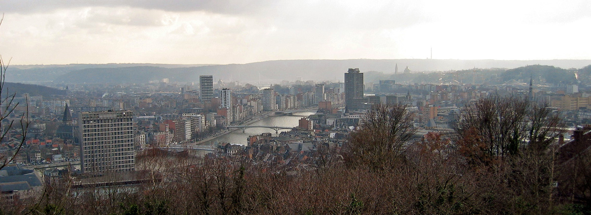 View of Liège from the Citadel Sorry for the ugly weather.